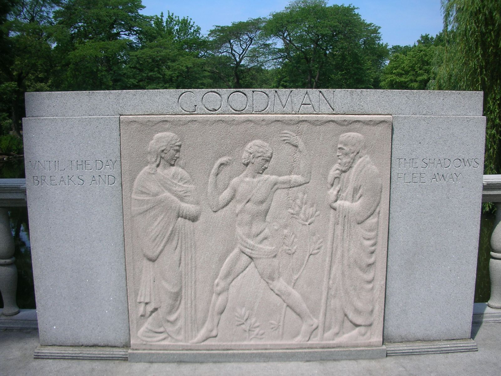 Lumber magnate William Goodman hired architect Howard Van Doren Shaw to design this tomb in 1919 after the death of his son. Lieutenant Kenneth Sawyer Goodman, a playwright, died in 1918 of influenza while in Naval training.